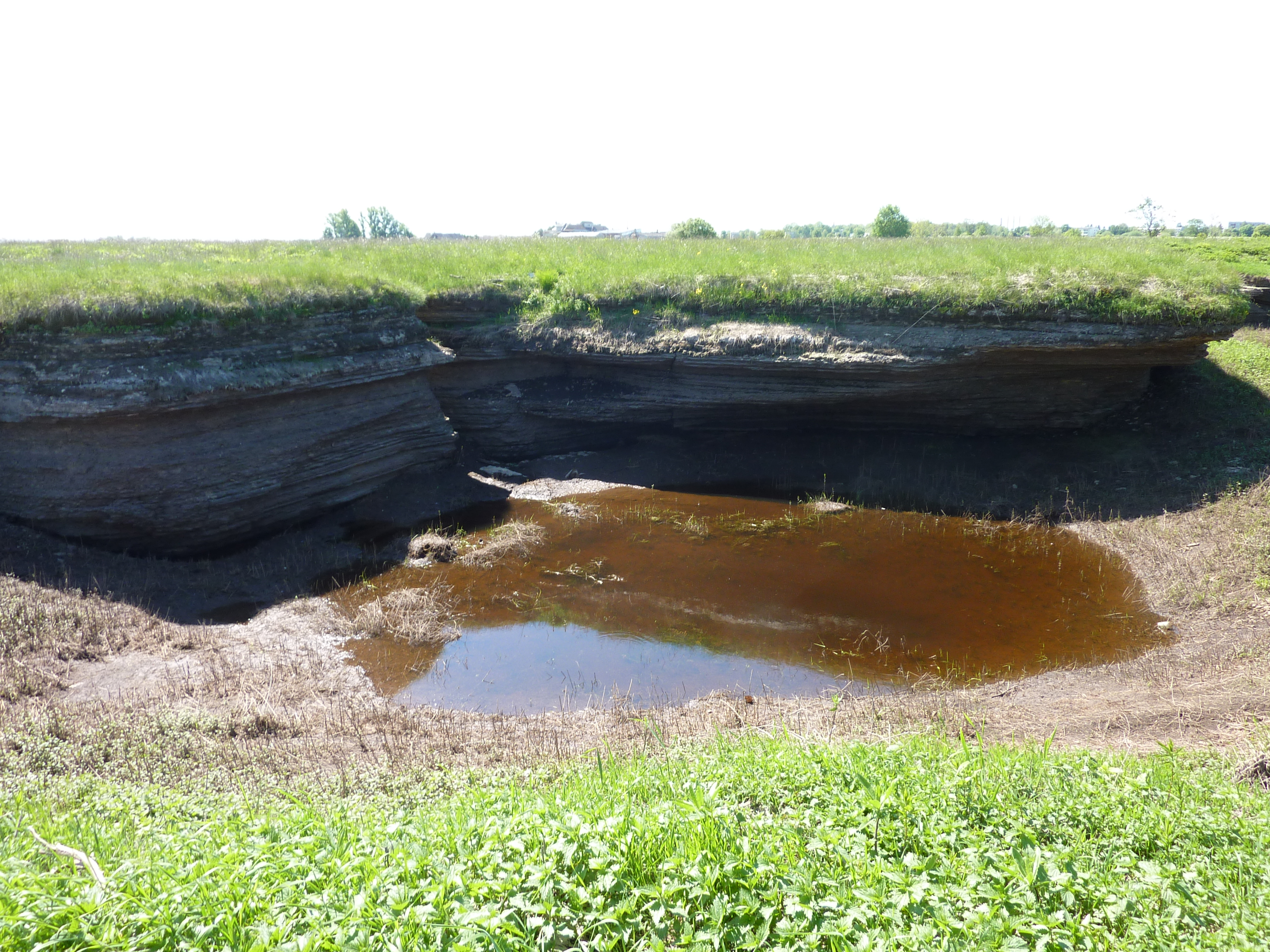 Doline in Kostivere karstfield, Estonia